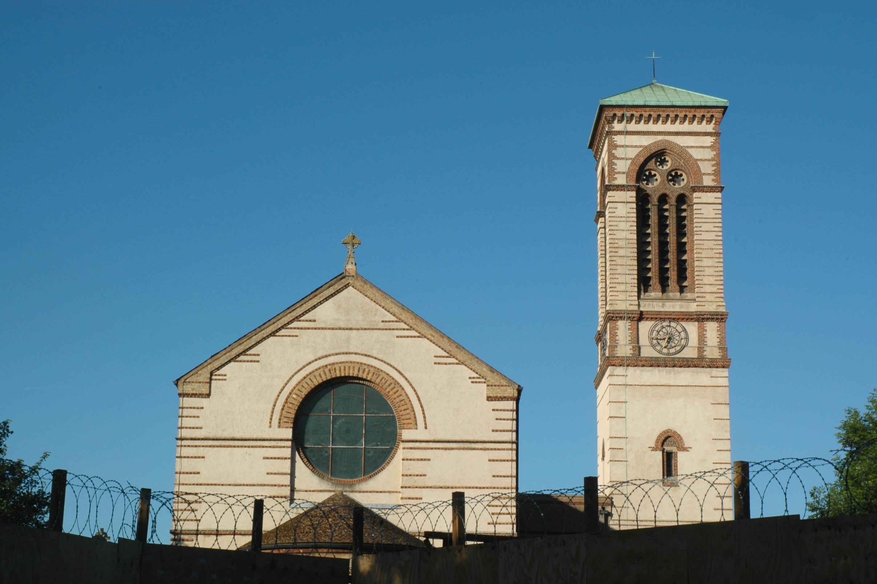 Church of England parish church of St Barnabas, Jericho, Oxford: campanile and west end of nave viewed from the west over the security fence enclosing the former boatyard.